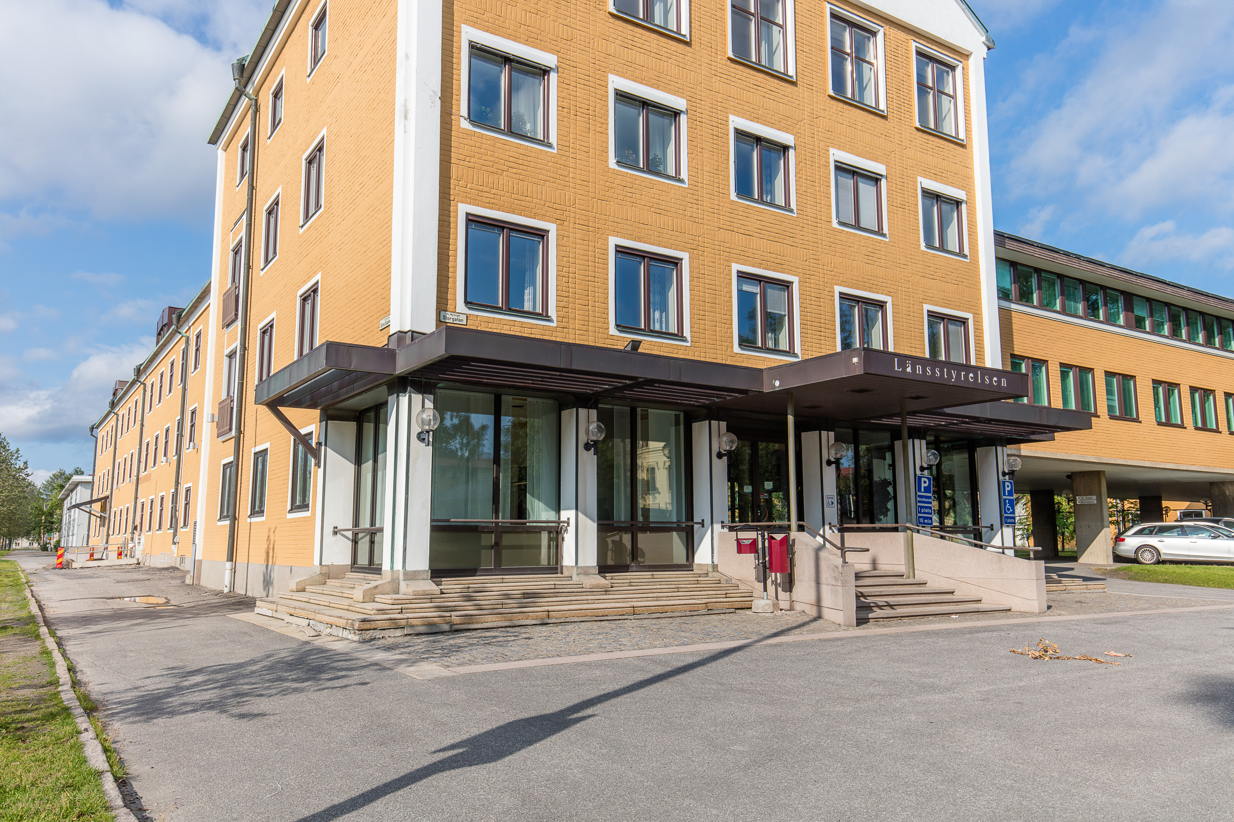 The Västerbotten County administration building in Umeå, seen from Storgatan.